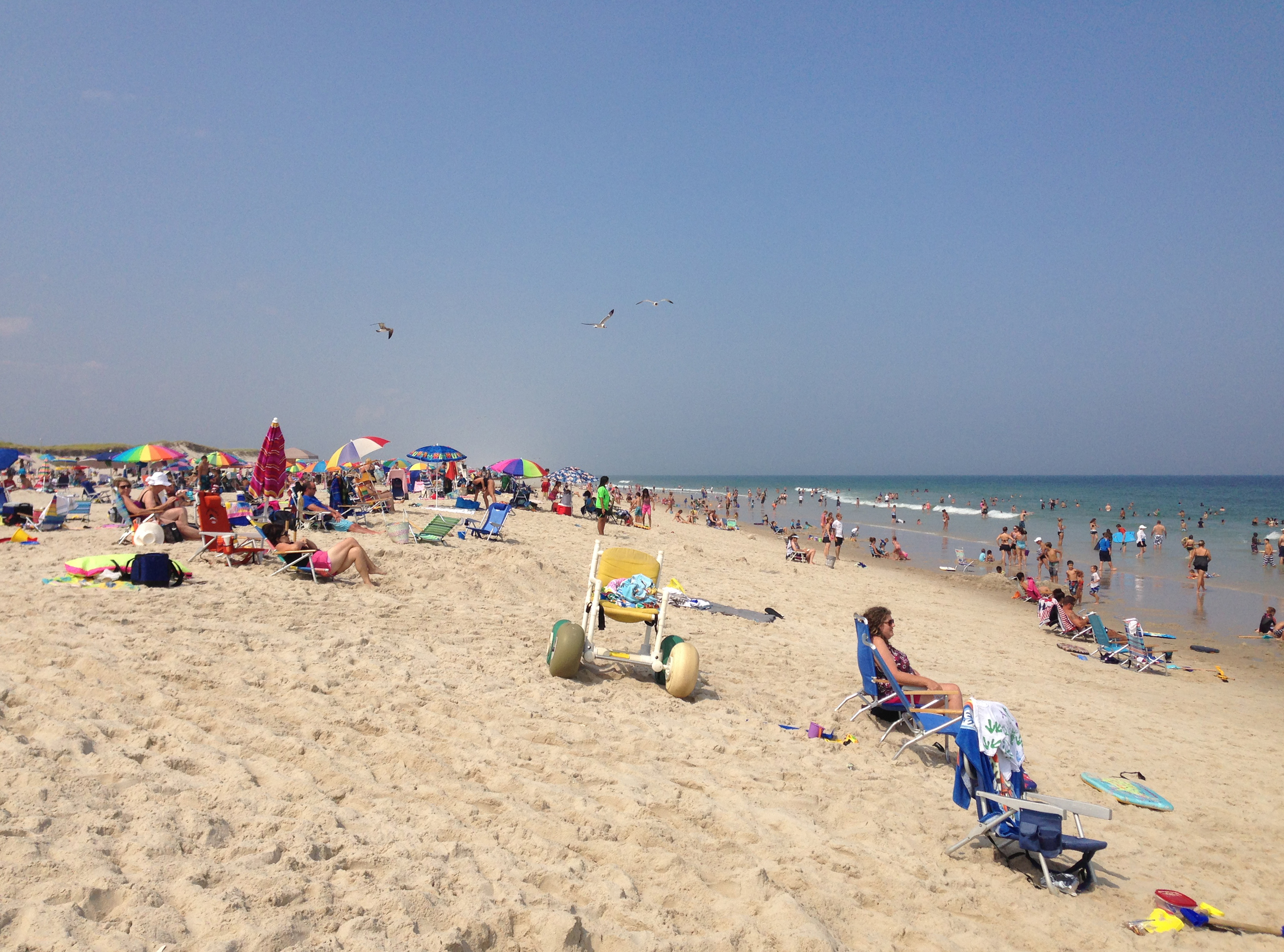 View north up the beach from the middle of the beach at Bathing Beach Number 1 in Island Beach State Park on August 21st 2013